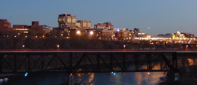 University of Minnesota Twin Cities at night. Viewed from the 10th Avenue Bridge.